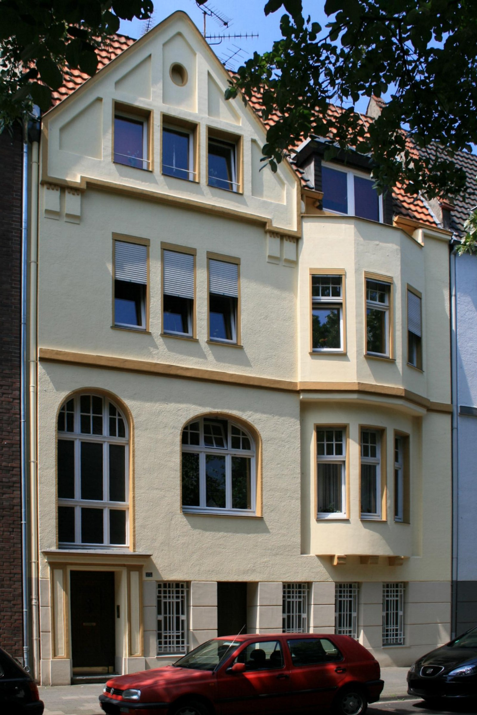 Cultural heritage monument No. B 090 in Mönchengladbach